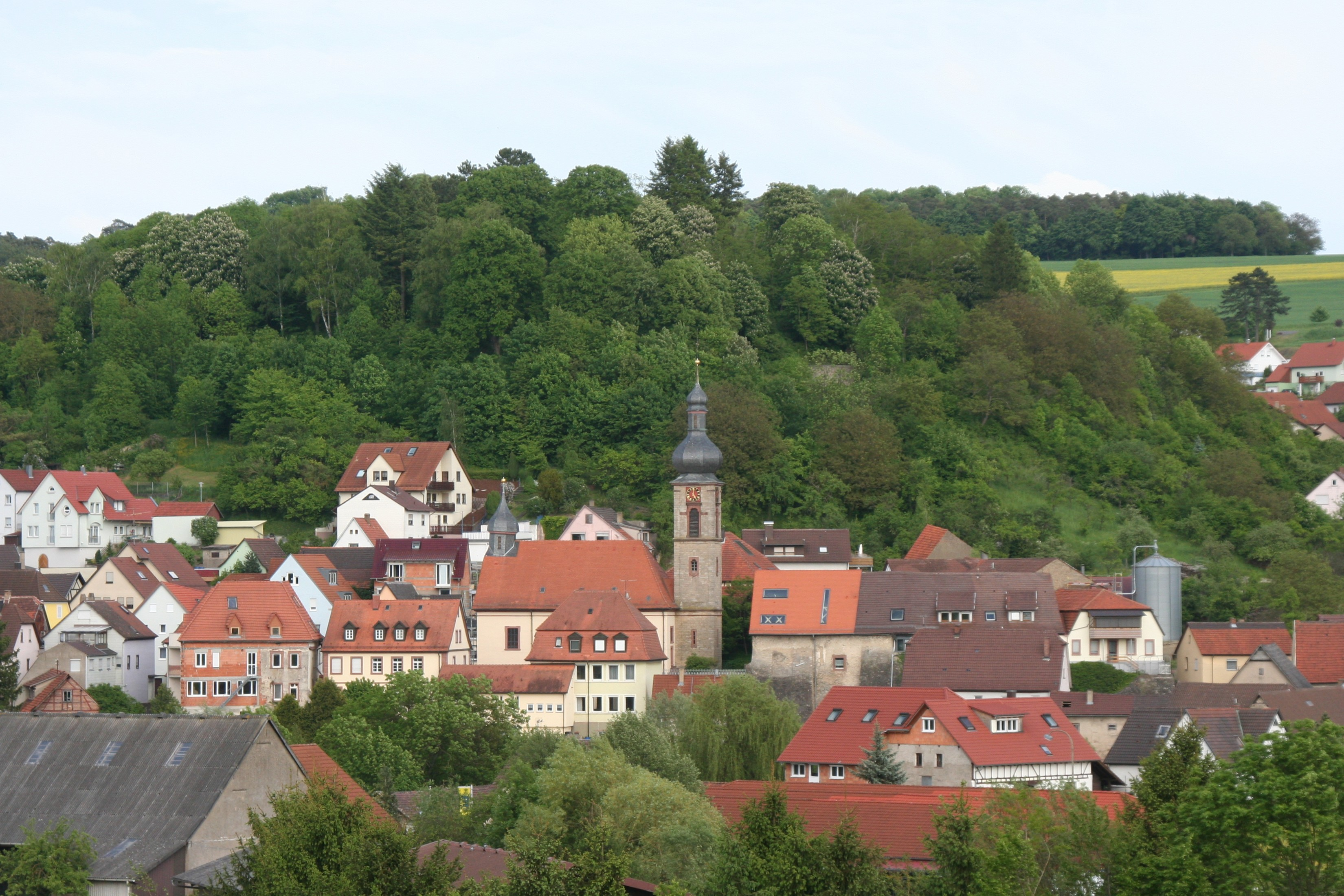 The Schlossberg (castle hill) in Boxberg from the Northwest